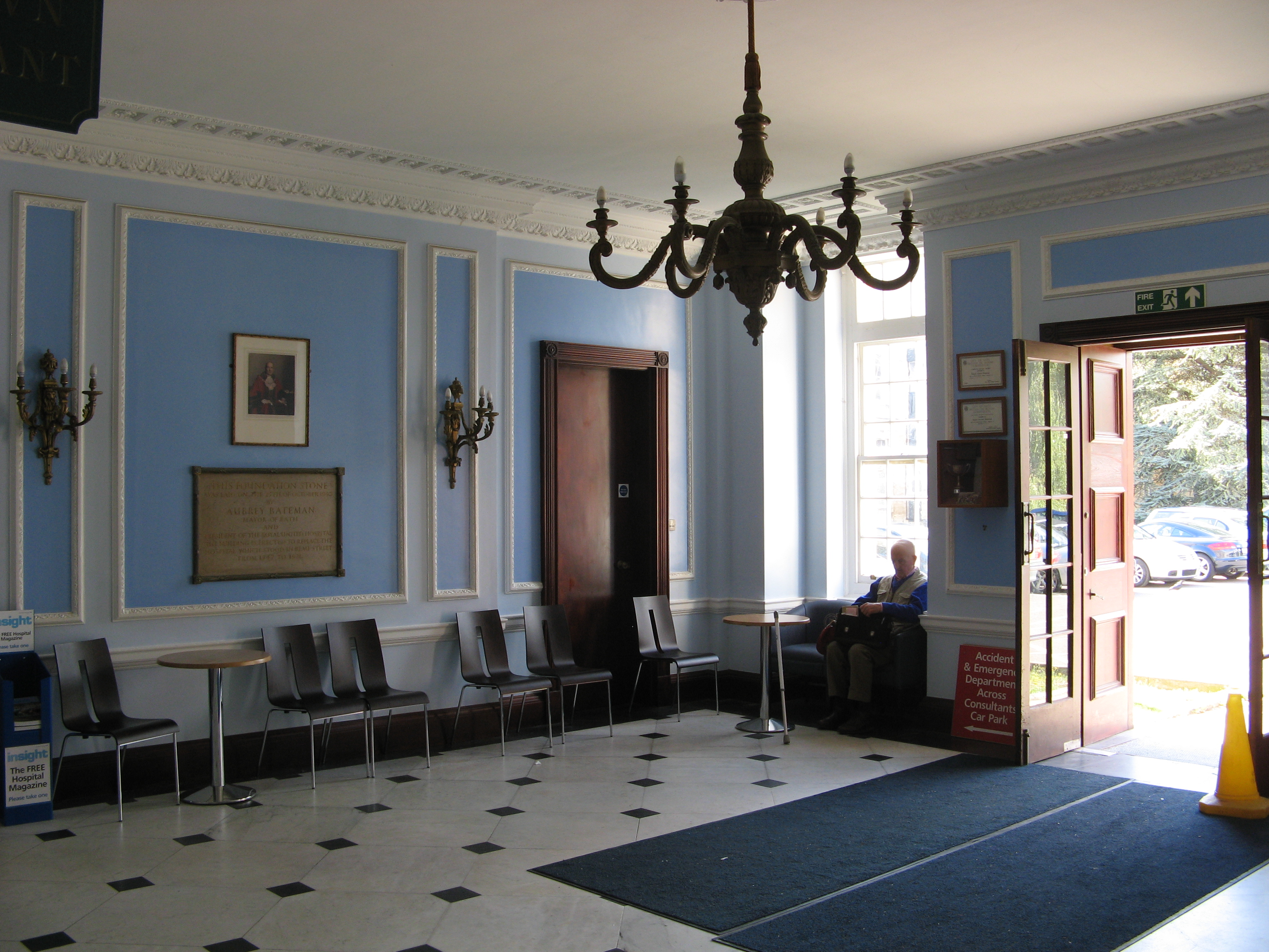 Foyer of the 1932 entrance to the new Royal United Hospital, Bath, now called RUH South.